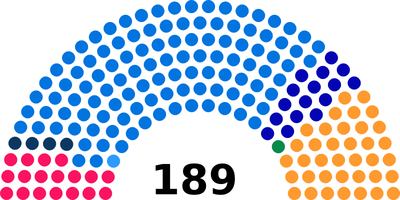 Seats diagramme of Swiss National Council (1914)